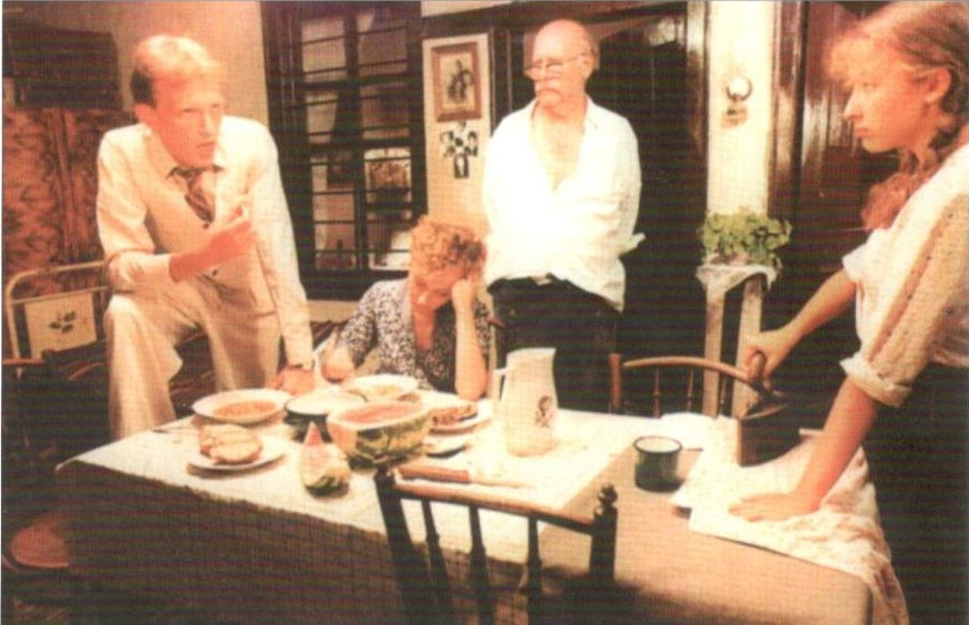 Scene from the Macedonian movie "Happy New 1949"